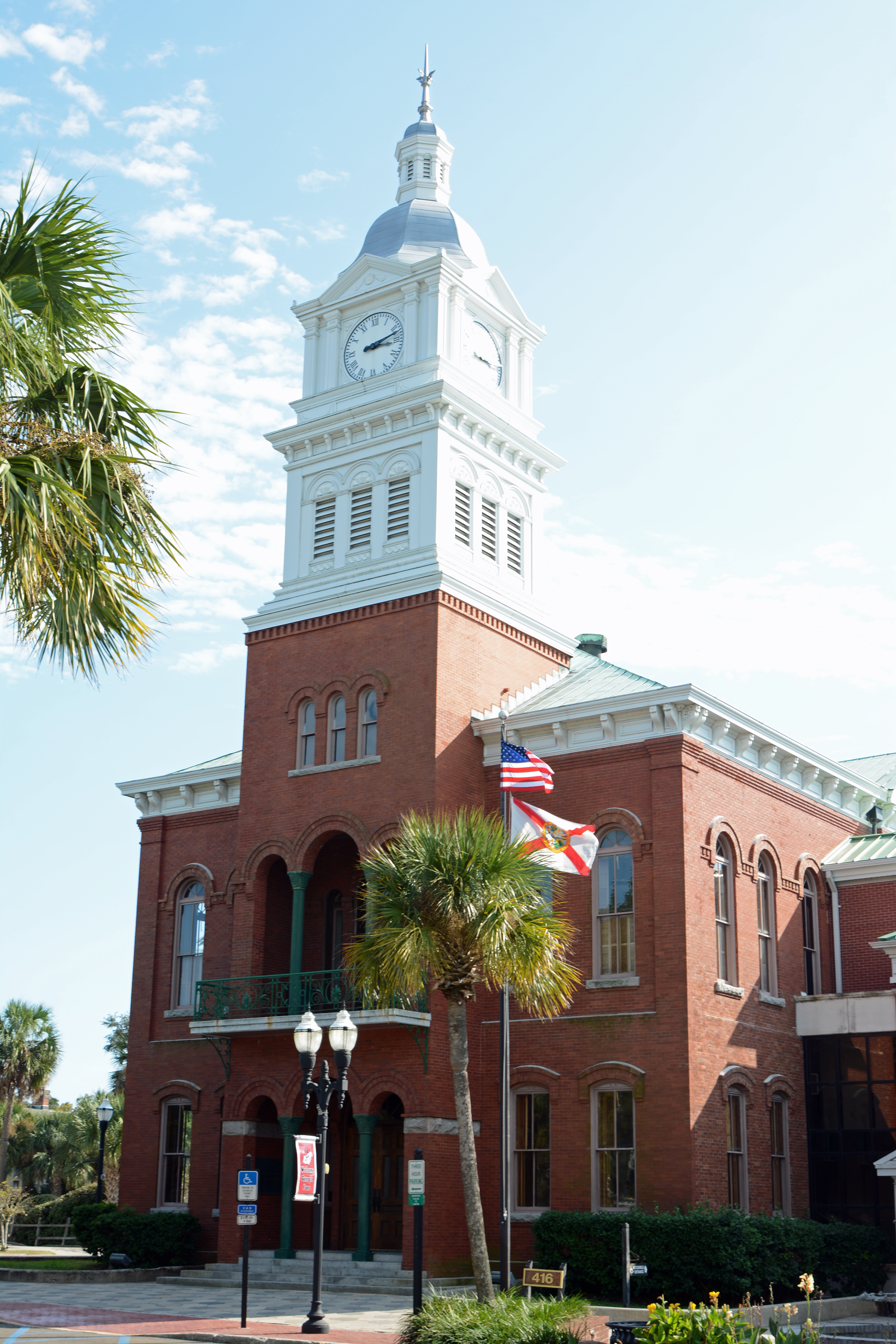 The 1892 Nassau County Courthouse, Fernandina Beach, Florida, US